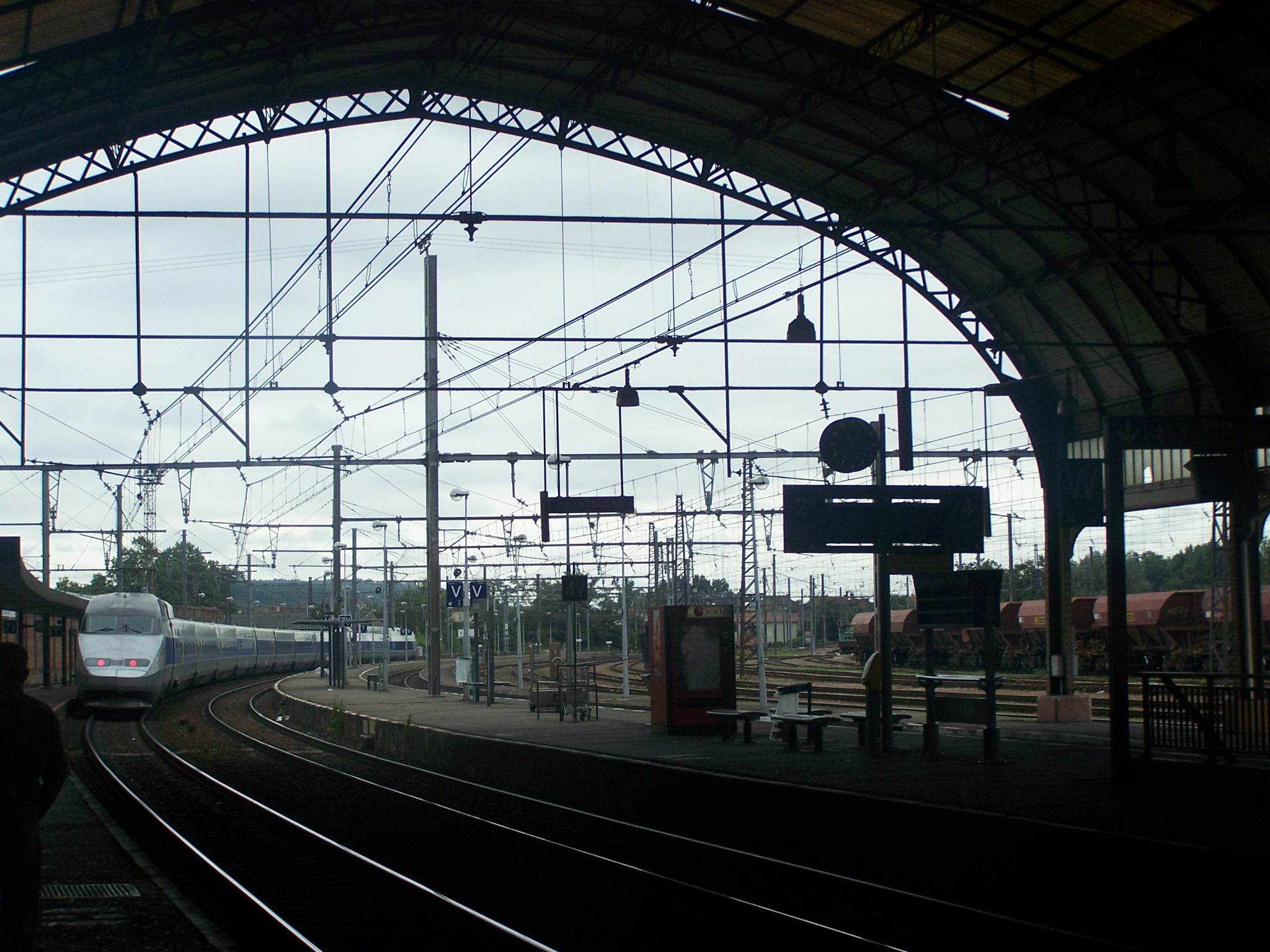 TGV from Paris leaving the train station of Montauban in Tarn-et-Garonne, France, and moving towards Toulouse.